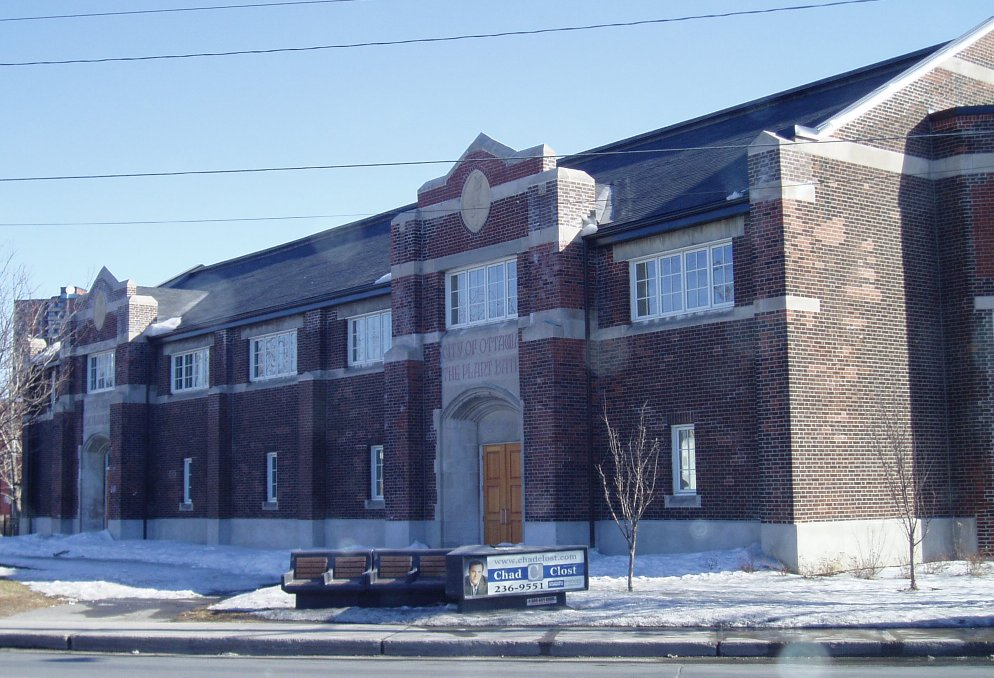 Taken by SimonP in March, 2005